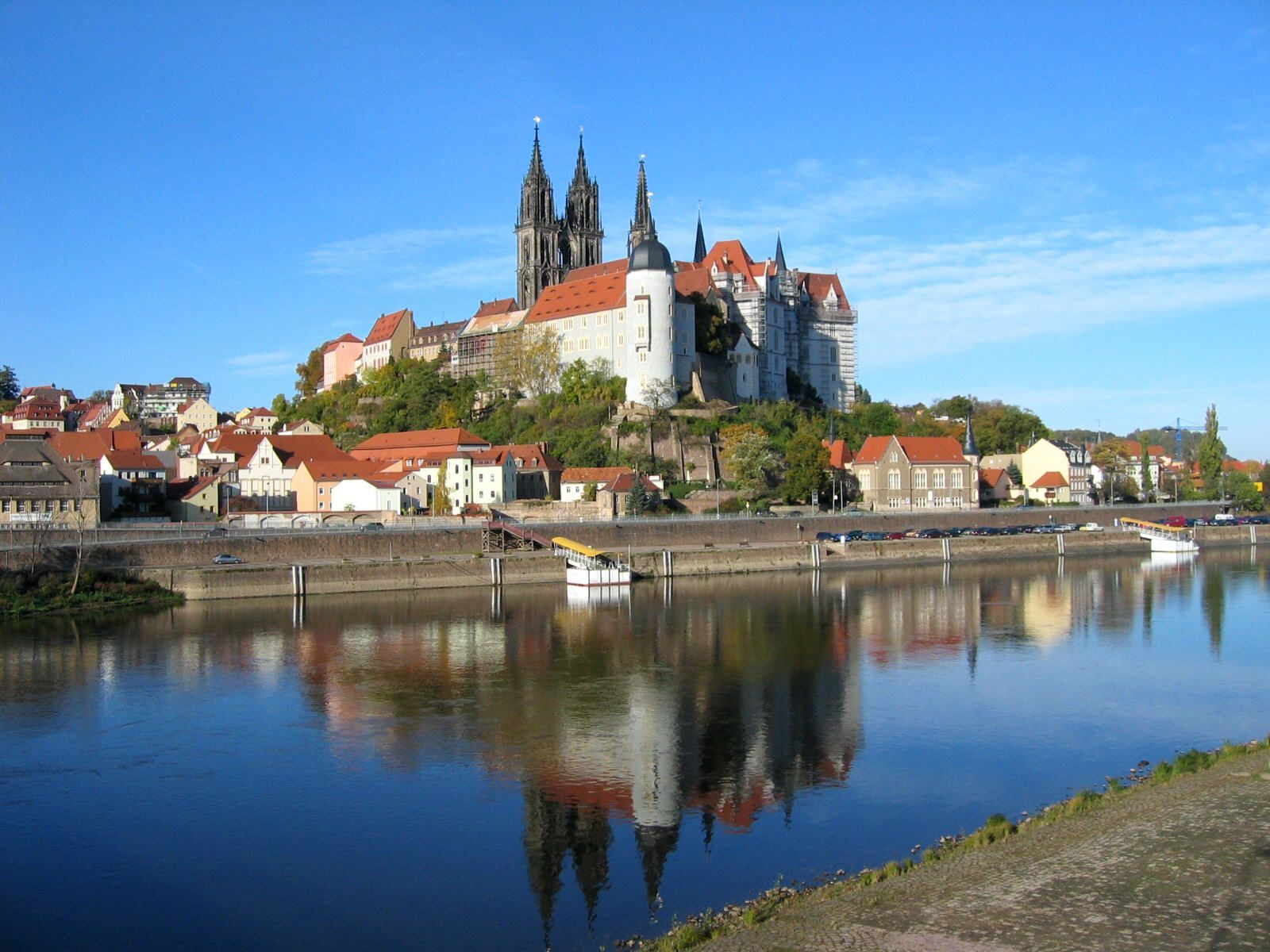 Meißen - Albrechtsburg and cathedral